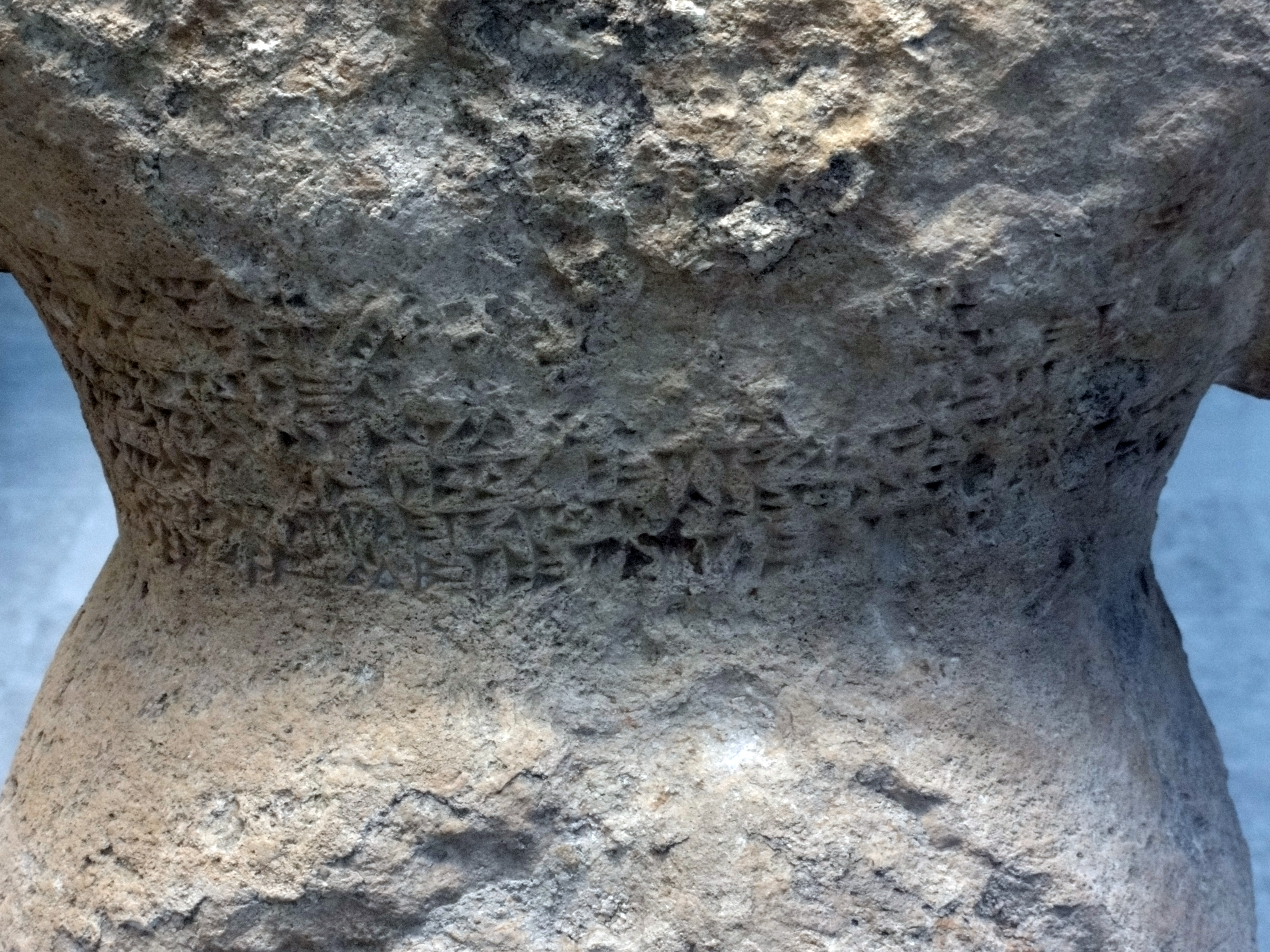 Originally set up in the temple of Ishtar. This is the only known Assyrian statue of a naked woman (inscribed as "for titillation"), and may represent Ishtar in her role as the goddess of love. 11th century B.C. BM/Big number 124963. Reg No 1856,0909.60. See Assyrian statue (BM 124963)